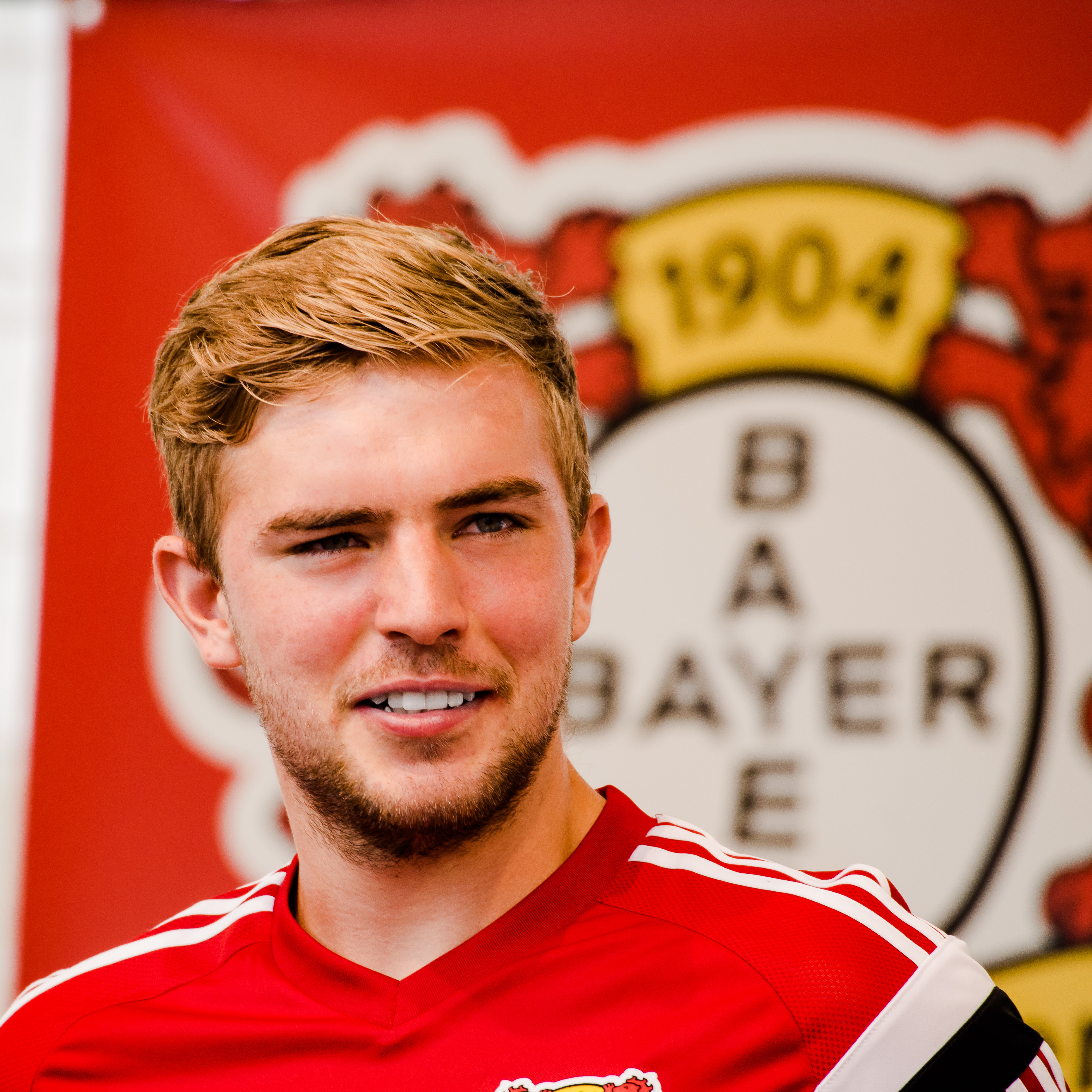 Christoph Kramer at the Bayer 04 Leverkusen presentation before the 2015/16 season